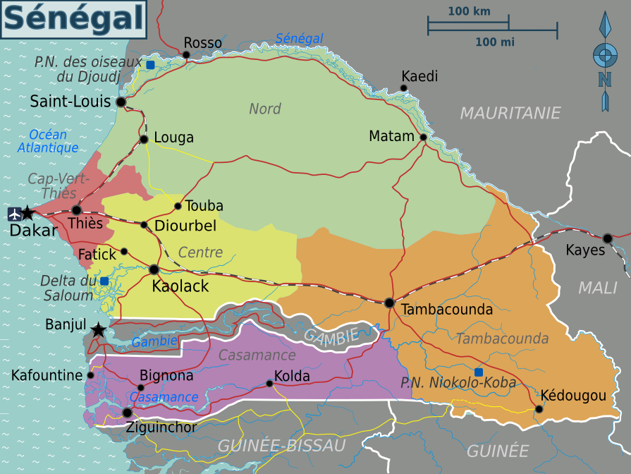 Map of Senegal for use on Wikivoyage, French version